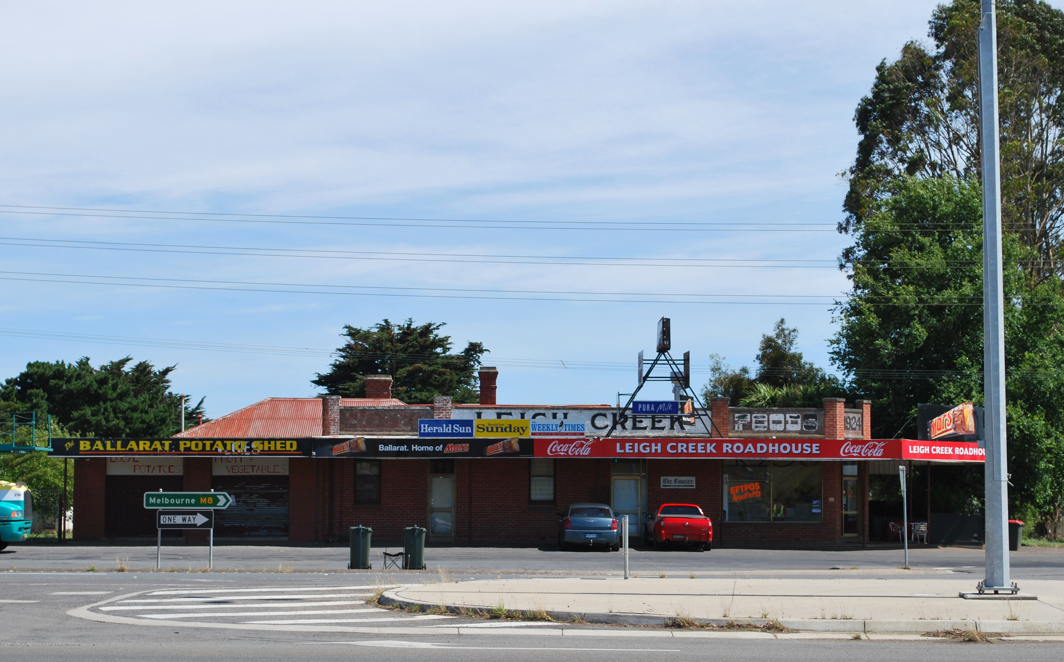 A former pub, now a roadhouse, at Leigh Creek, Victoria